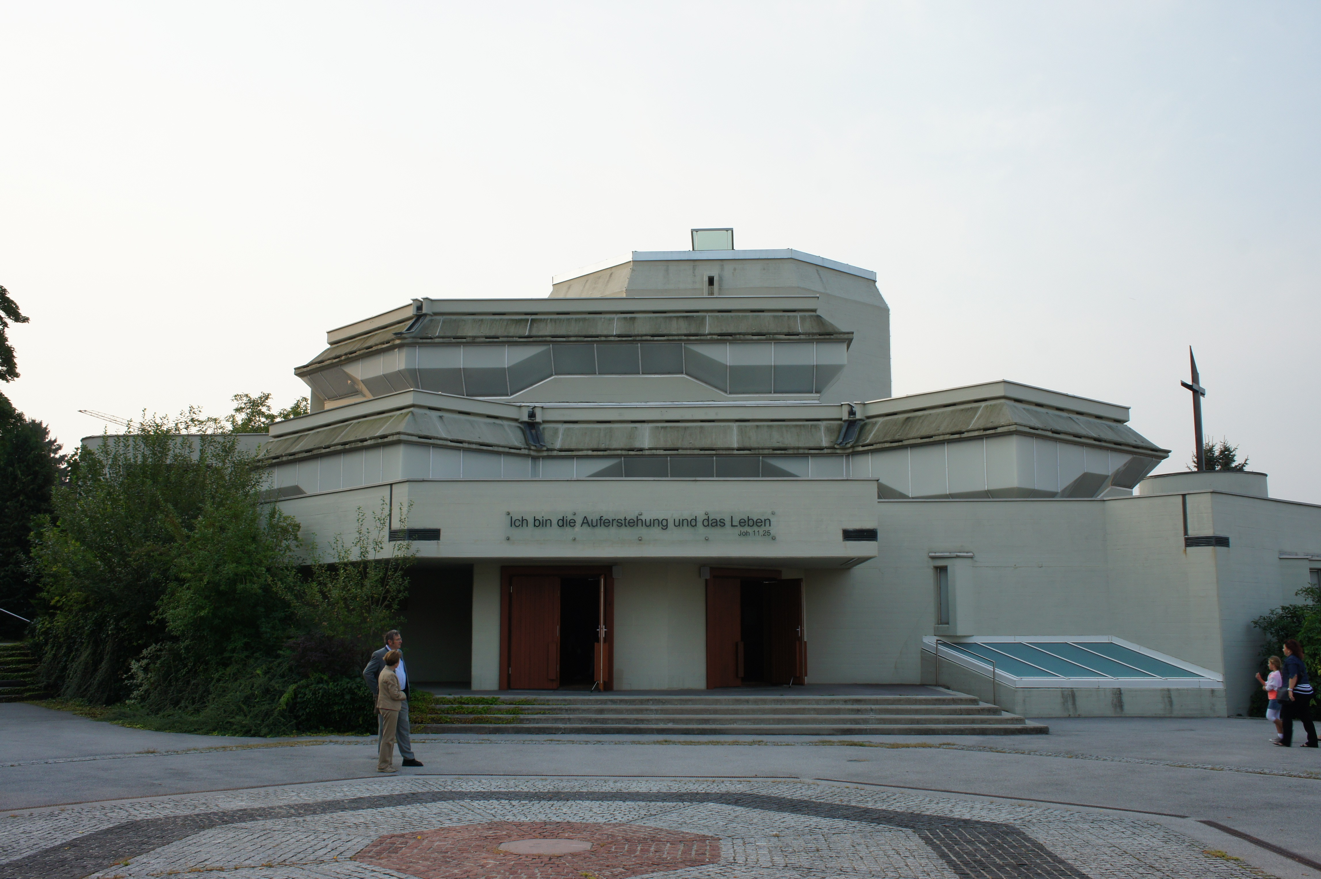 parish church Resurrection of Jesus, Oberwart, Austria